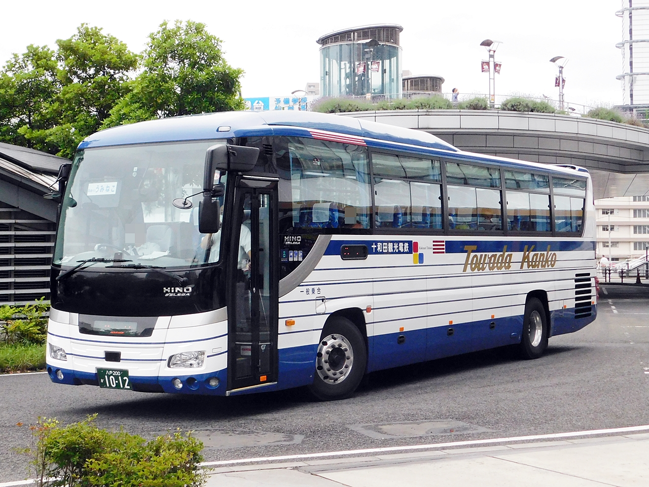 Towada Kanko Railway bus Hino S'elega (2TG-RU1ASDA)on highwaybus "Umineko"(Hachinohe-Sendai)